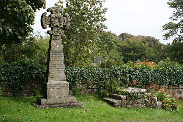 Sancreed War Memorial Behind the wall is the churchyard. I do not know the reason for those stone steps to the right of the memorial.